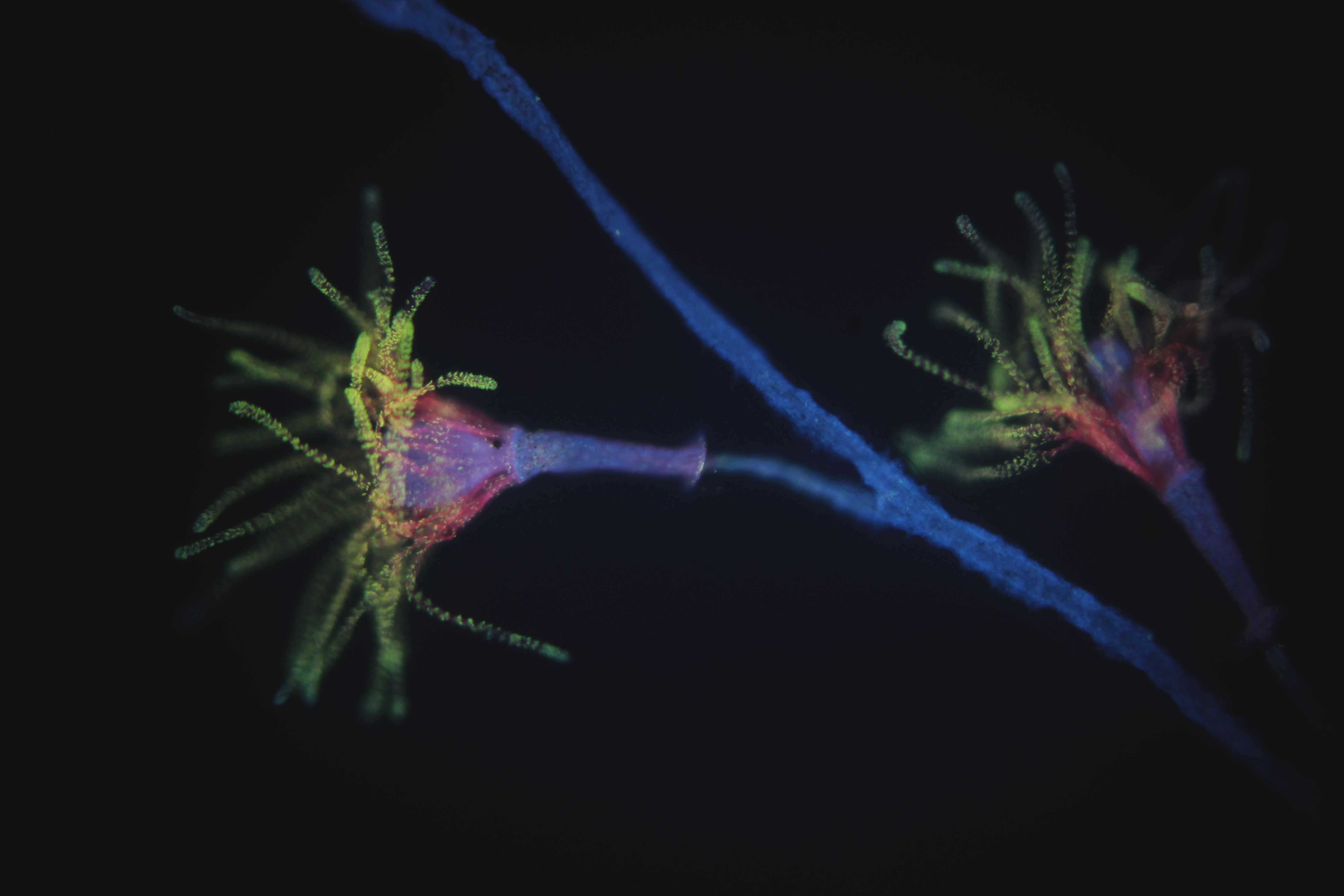 Polyps of Gonothyraea loveni colony from White Sea (Cnidaria: Hydrozoa) photographed in phluorescent light with magnification 20x. Specimens were labeled with DAPI to show nuclei (in blue), phalloidin to show actin in muscles (red). Also cnydocytes in tentacles are well-distinguishable due to their yellow dyieng.